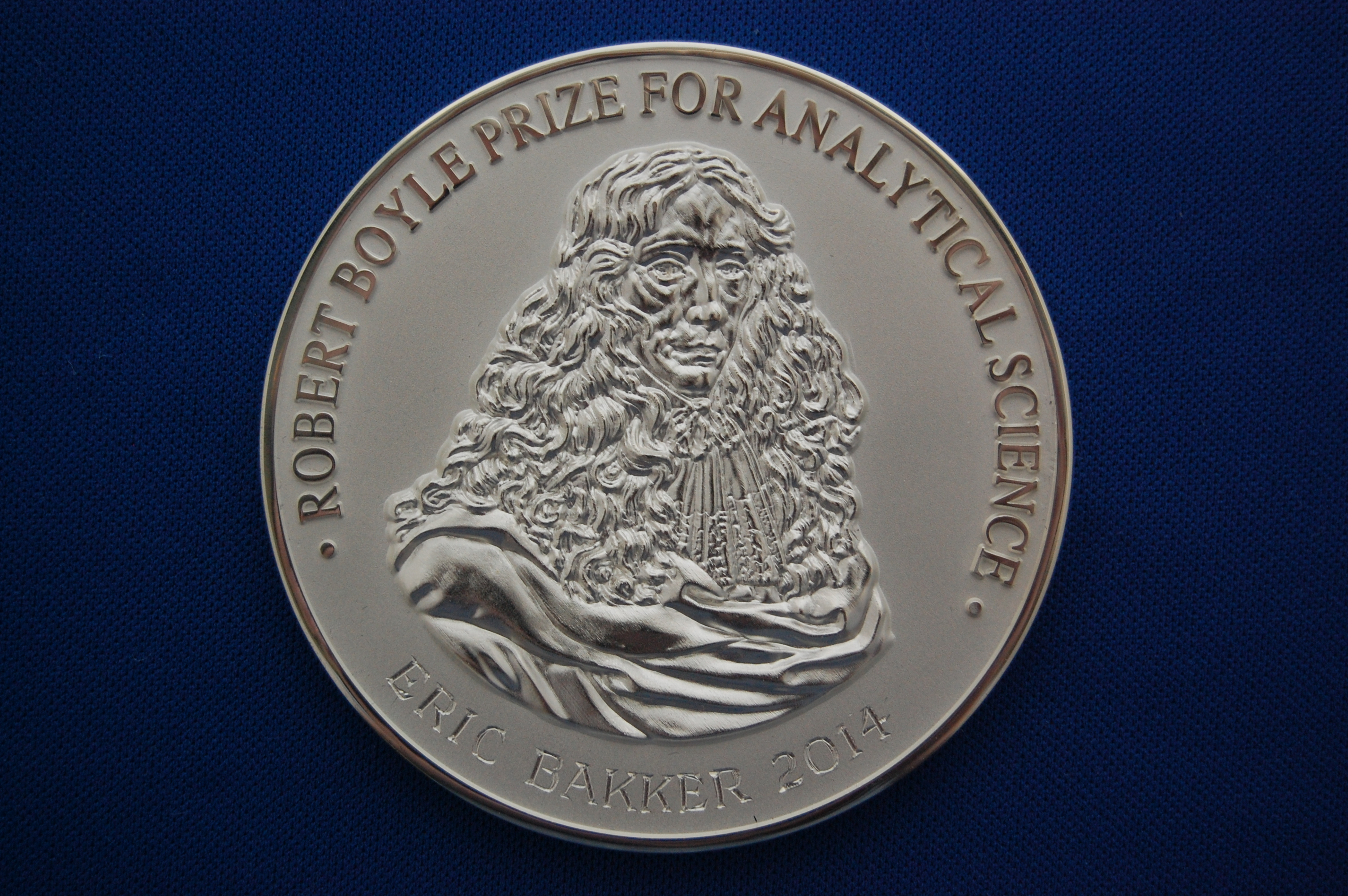 The Royal Society of Chemistry's Robert Boyle Prize for Analytical Science - 2014 - obverse